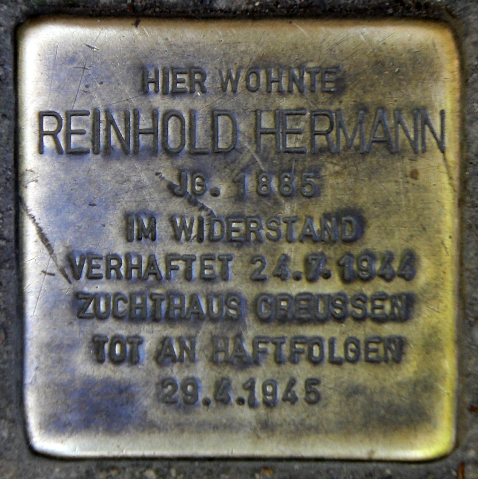 "Stolperstein" (stumbling block), Reinhold Hermann, Weserstraße 54, Berlin-Neukölln, Germany